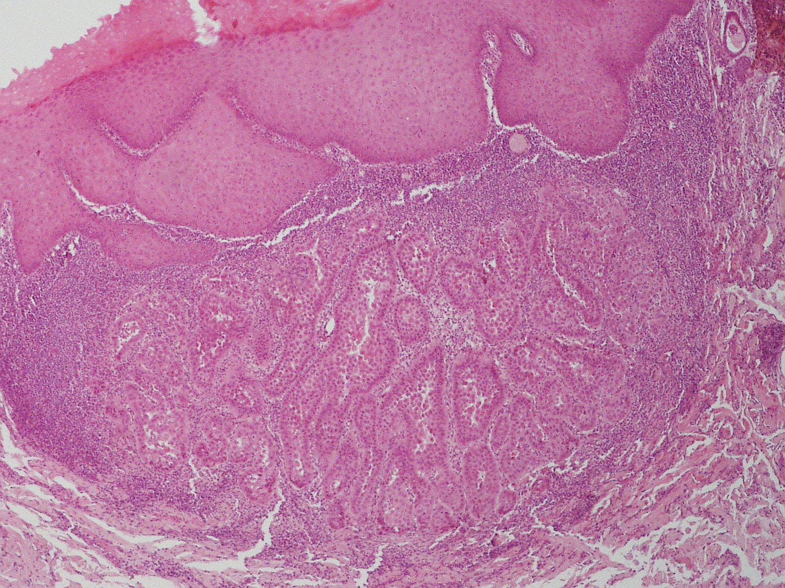 Warty dyskeratoma (magn. 4×)